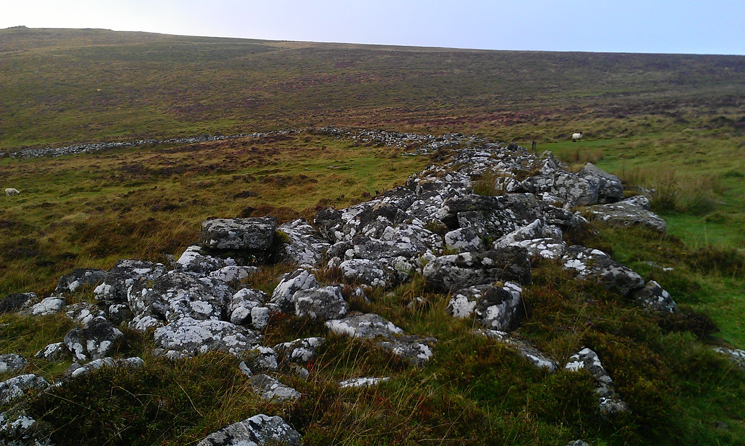 The Bronze Age settlement of Grimspound on Dartmoor, Devon. This photograph features the eastern boundary of the settlement.